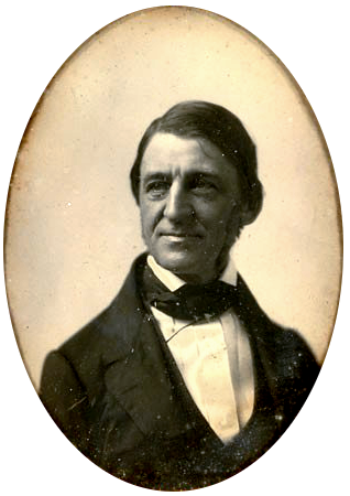 Quarter-plate daguerreotype of Ralph Waldo Emerson. bMS Am 1280.235 (706.2), Houghton Library, Harvard University